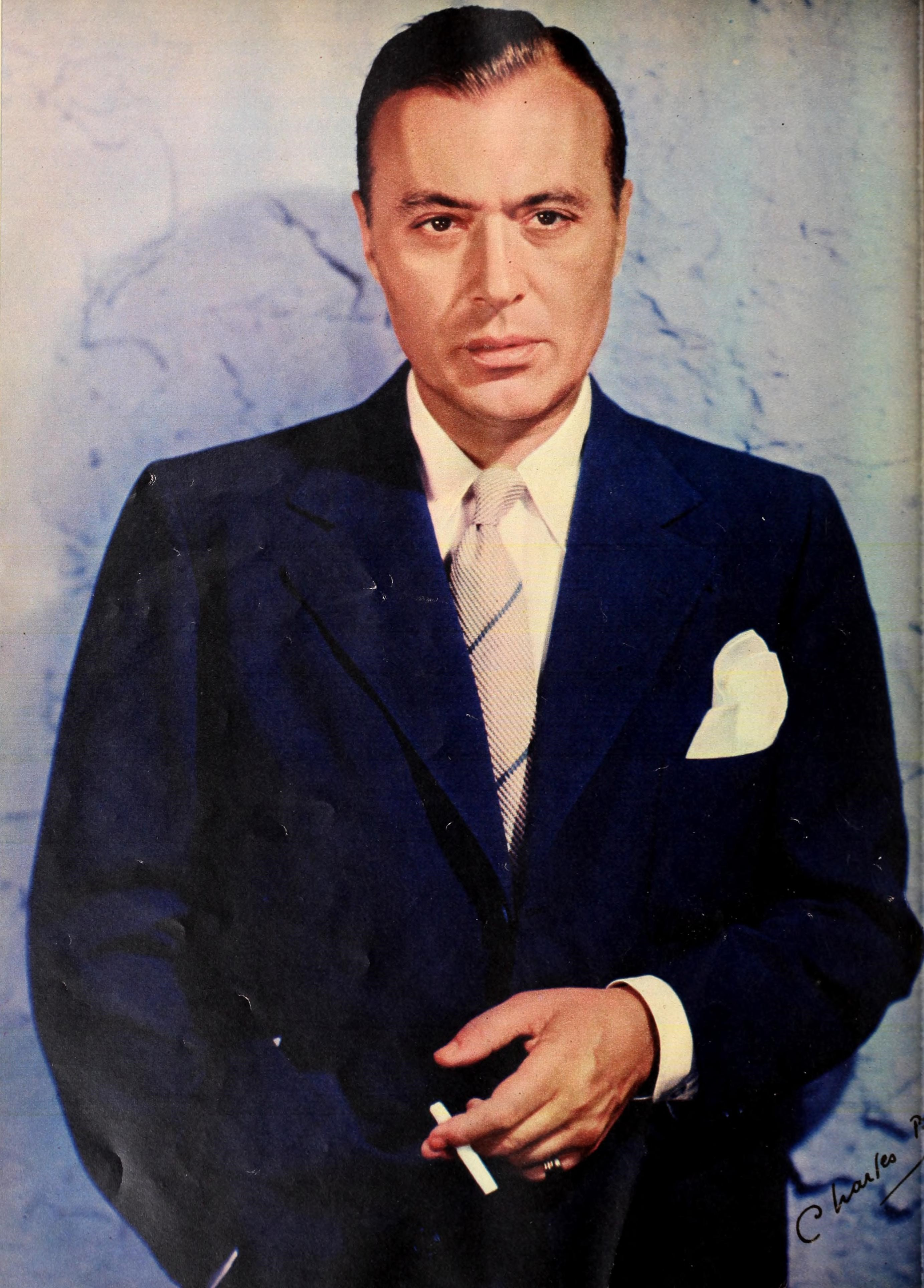 Color portrait of Charles Boyer